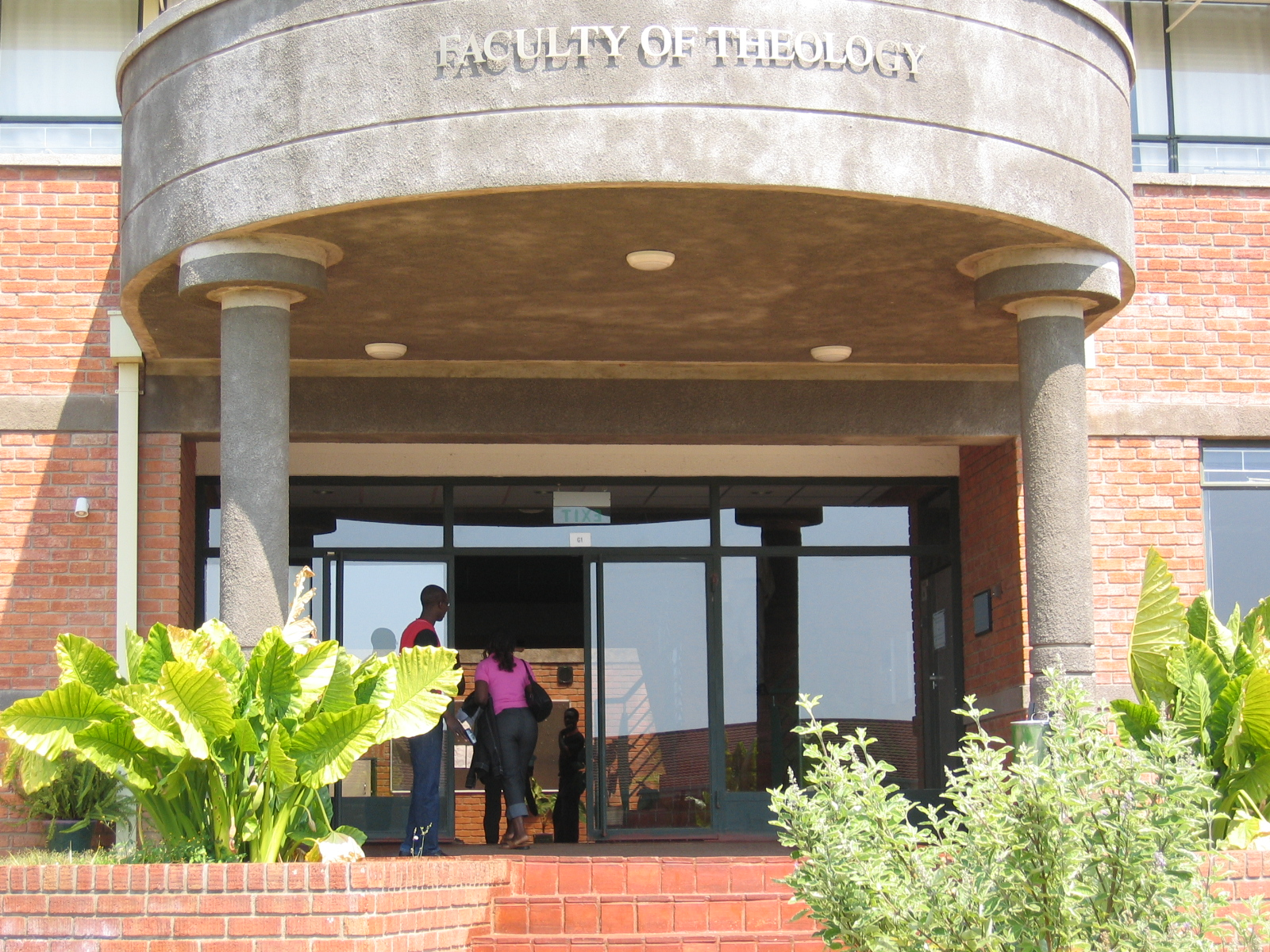 Africa University Faculty of Theology Entrance